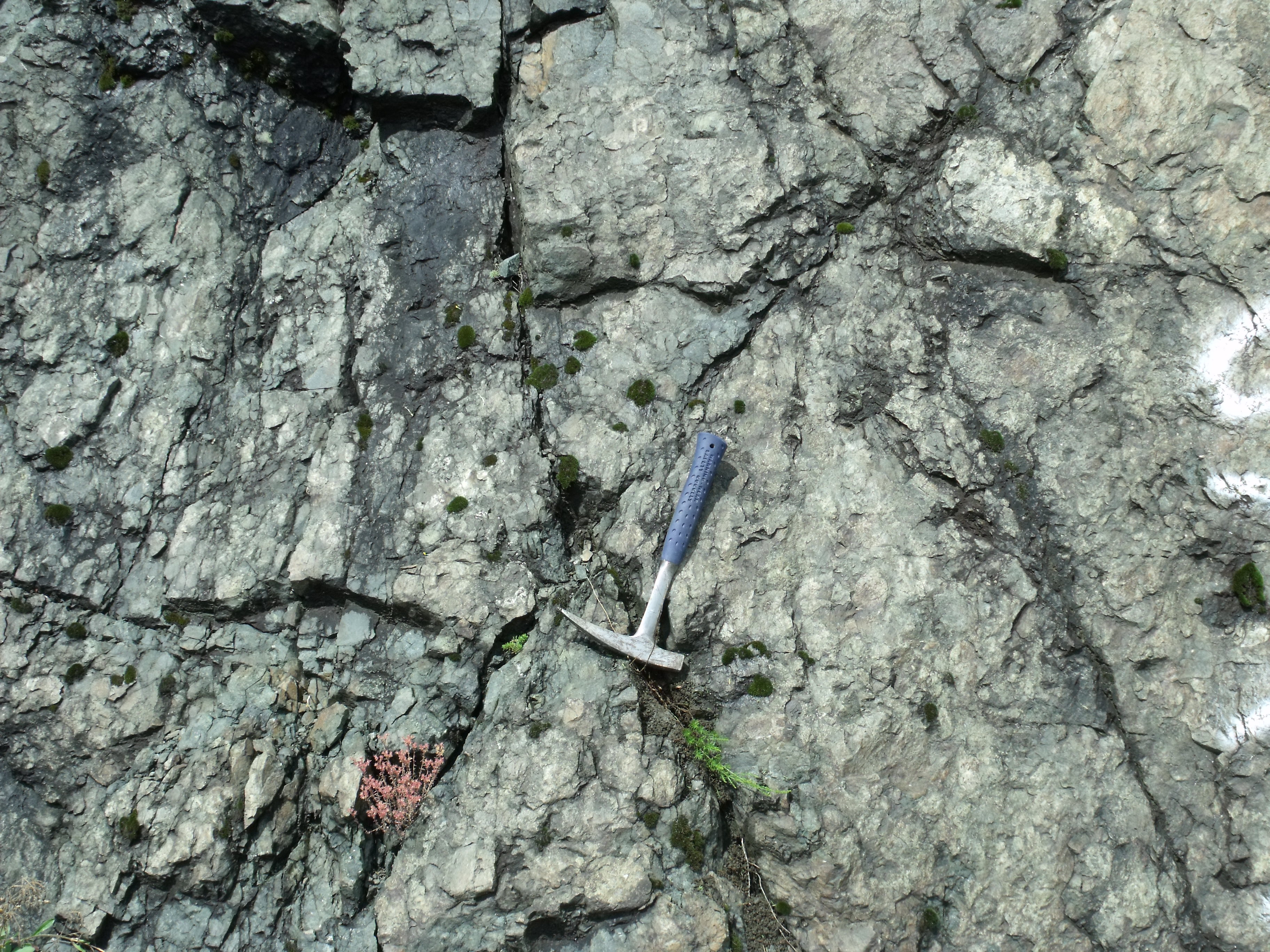 System of h0l planes, diabase-chert formation of Vardar zone, western Serbia